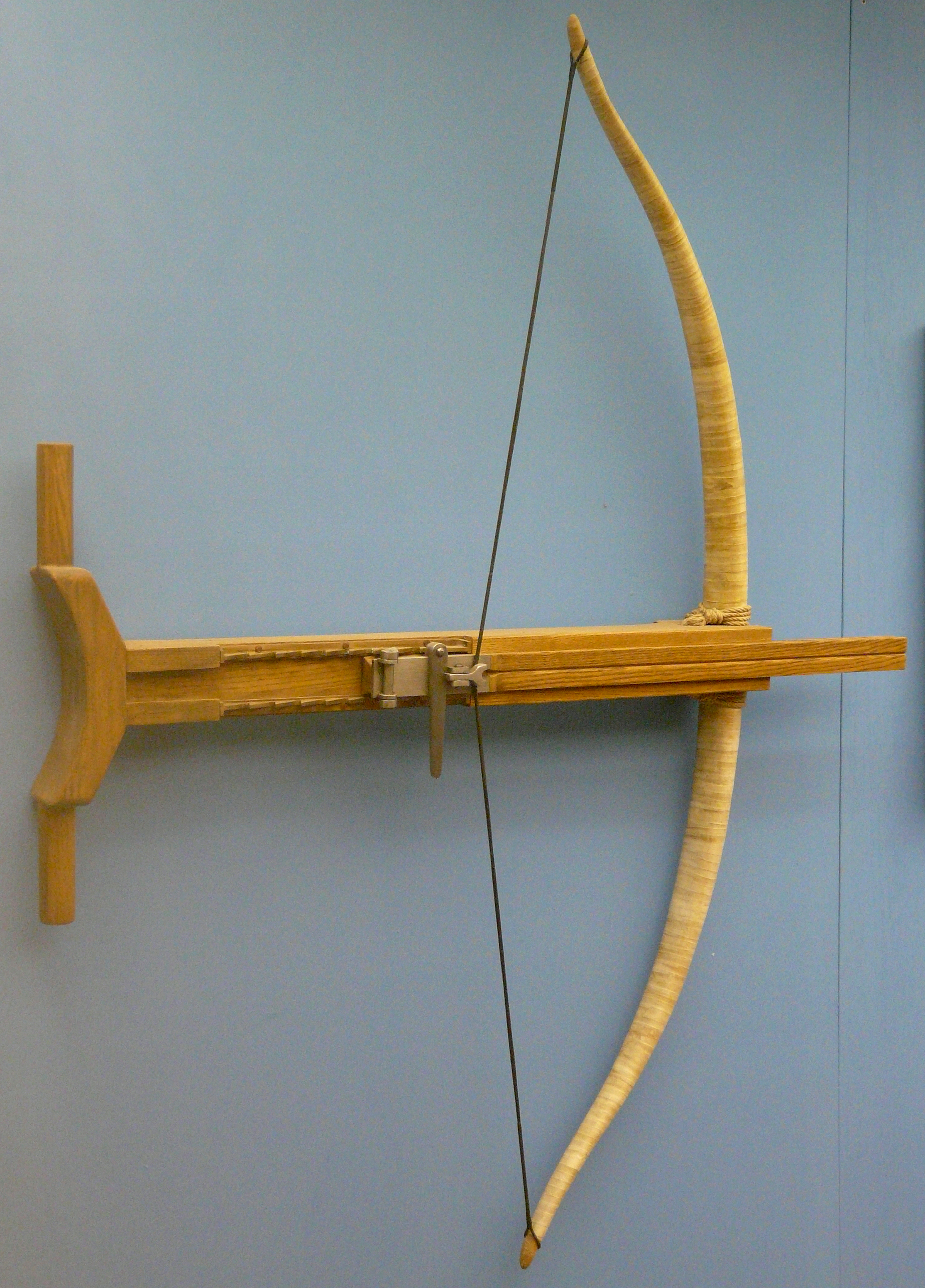 Reconstruction of a Gastraphetes, an ancient Greek crossbow, in the Saalburgmuseum at Bad Homburg v. d. Höhe, Hesse, Germany.